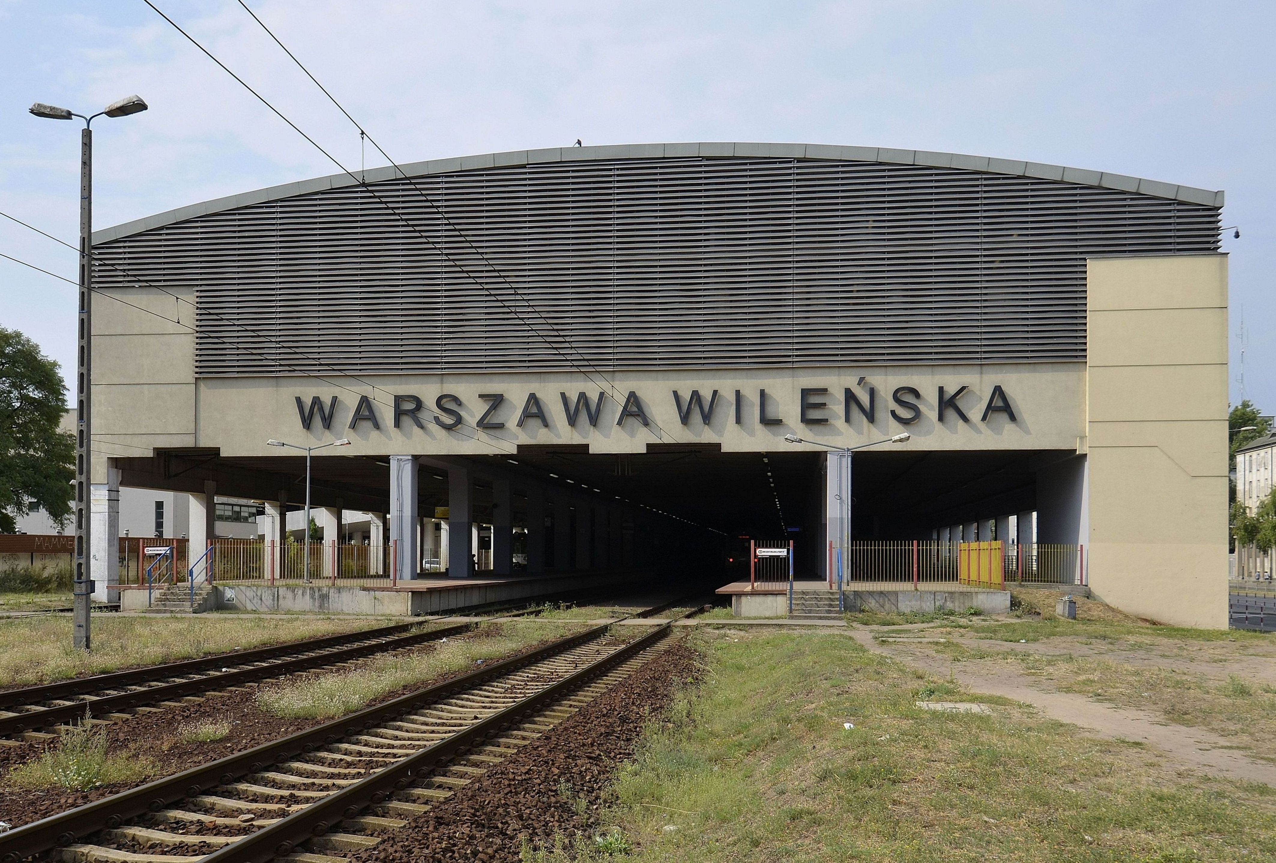 Warszawa Wileńska railway station, view from the east